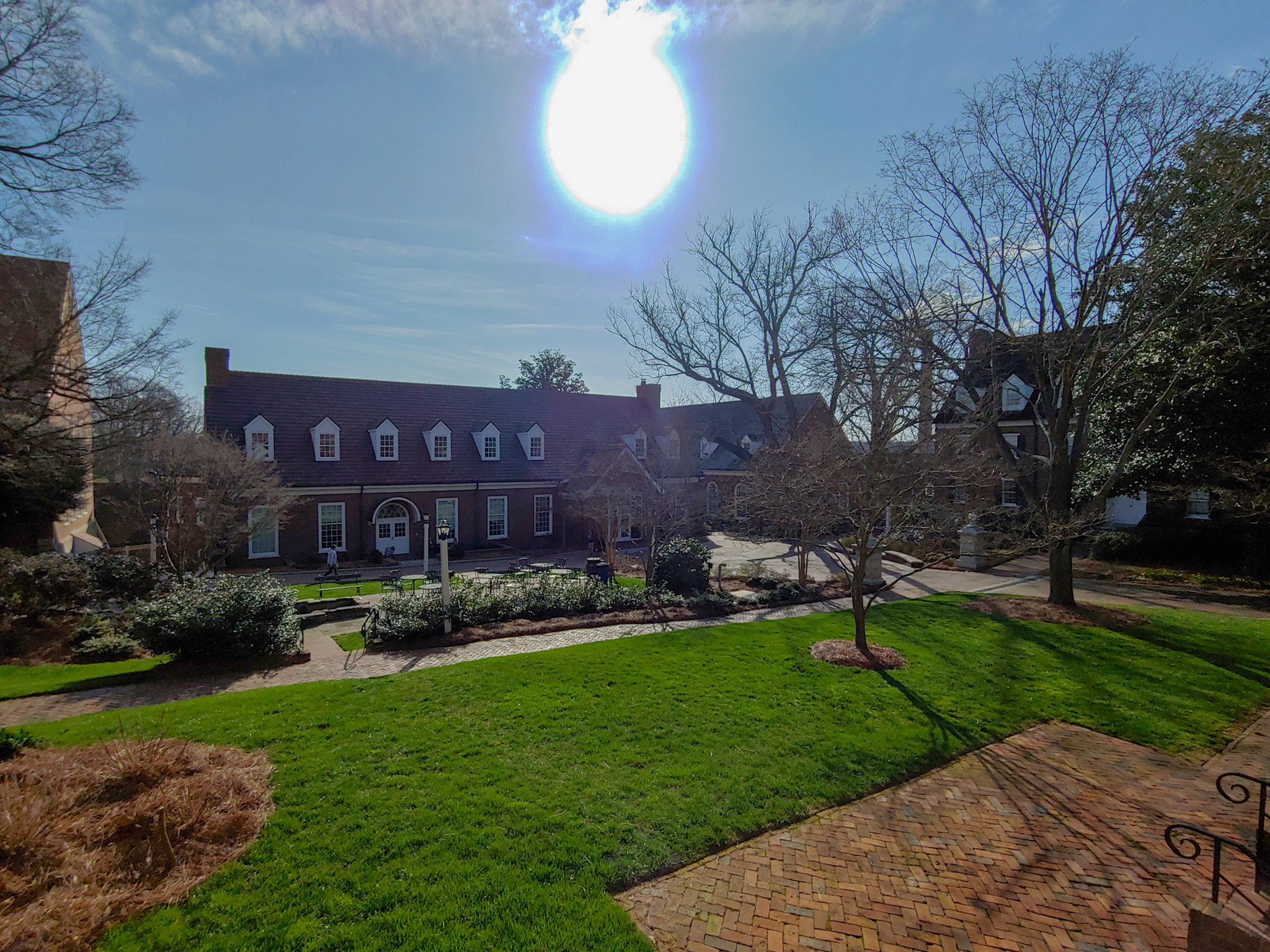 The Student Center is the hub of Salem College, featuring a cafe and outdoor seating areas, meeting rooms, student lounges, and a workroom for clubs and organizations.